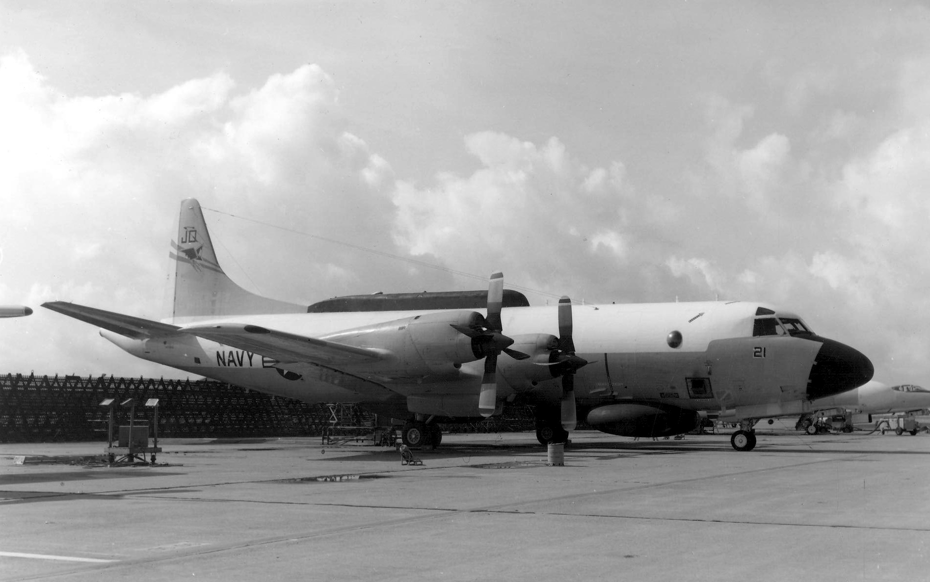 A U.S. Navy Lockheed EP-3E Orion (BuNo 149668) of Fleet Air Reconnaissance Squadron VQ-2, circa in 1971. 149668 had been delivered as a P-3A (then P3V-1) on 31 July 1962. It was converted to an EP-3E in 1970 and transferred to VQ-2 on 30 July 1971. It served until being retired in 1995.